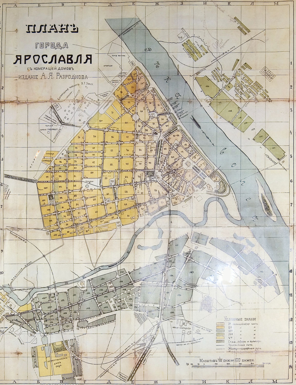 The plan of Yaroslavl, 1911